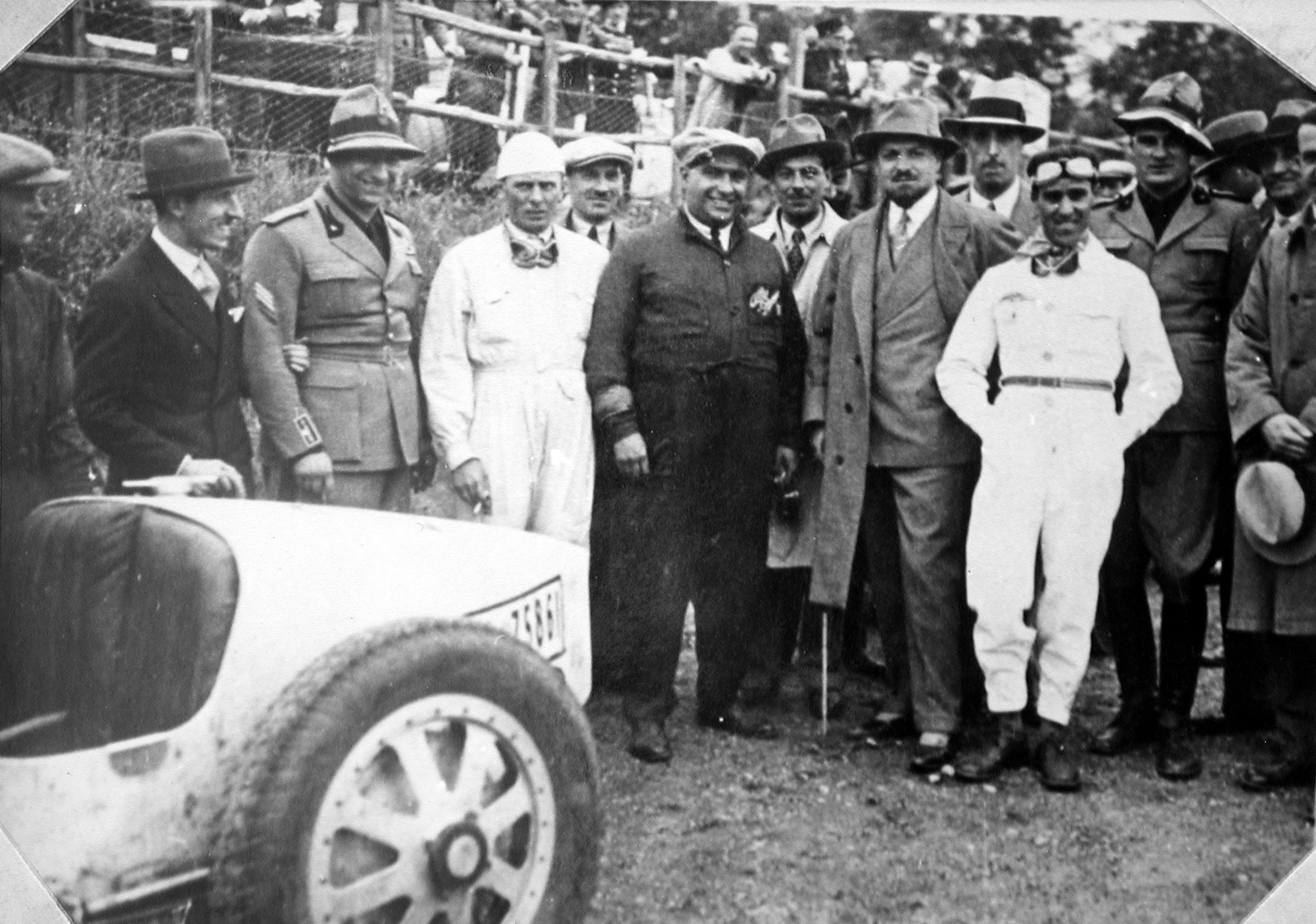 The racecar drivers Achille Varzi (4th from left), Giuseppe Campari (6th) and Tazio Nuvolari (10th) of Alfa Romeo with Italo Balbo (8th) and Prospero Gianferrari (7th).